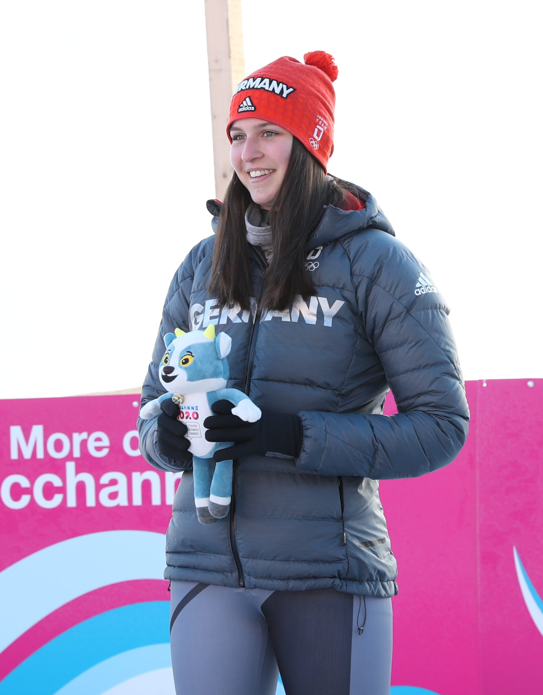 Mascot Ceremony Luge Women's Single at the 2020 Winter Youth Olympics in Lausanne